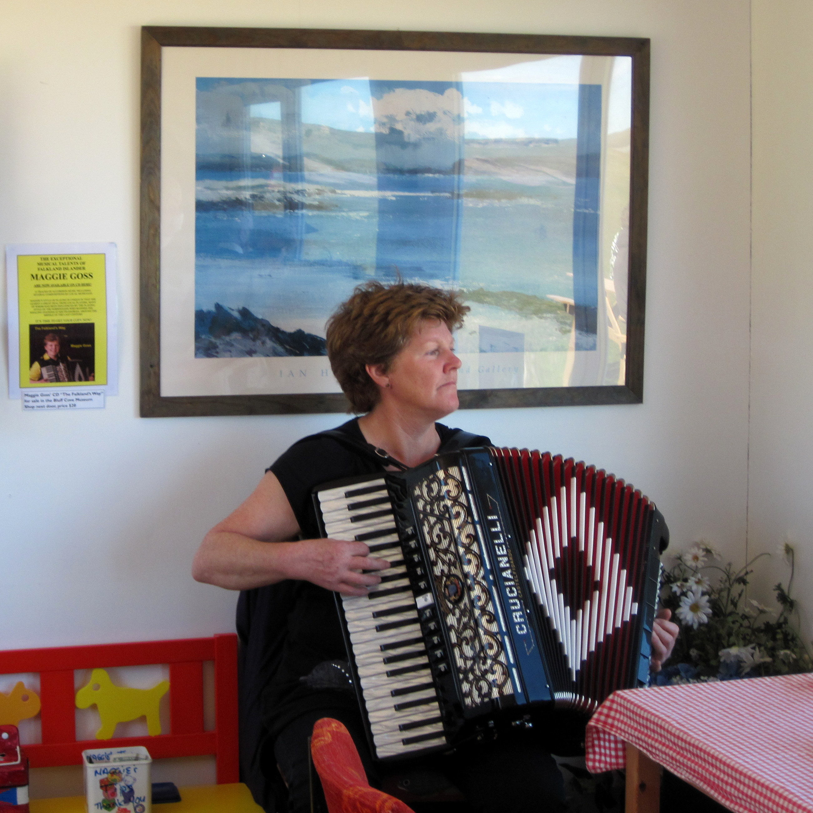 Margaret "Maggie" Goss of Horseshoe Bay Farm plays her Crucianelli accordion for tourists with a tip bucket beside her while gazing out the window at the Sea Cabbage Café on Bluff Cove Lagoon in East Falkland Island